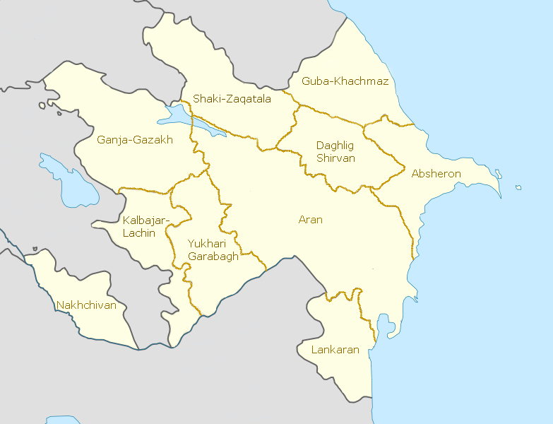 It's the map of the economic regions in Azerbaijan.